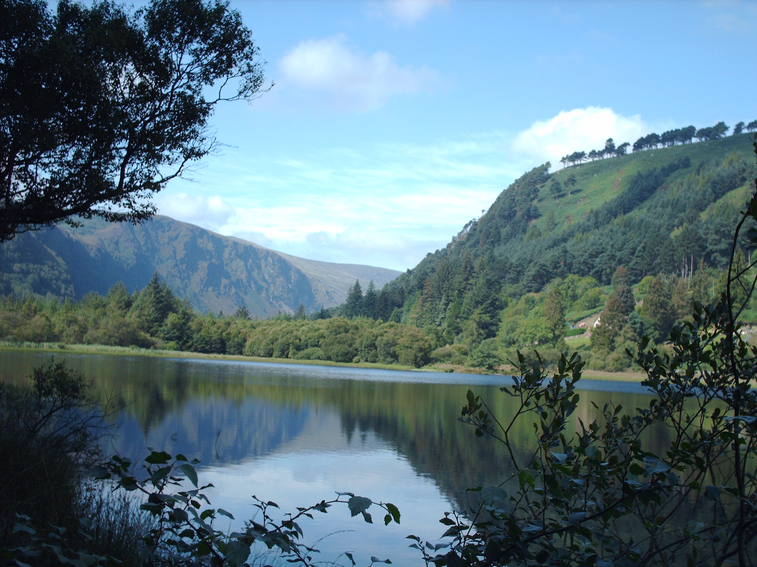 Landscape, Glendalough, Ireland check usage